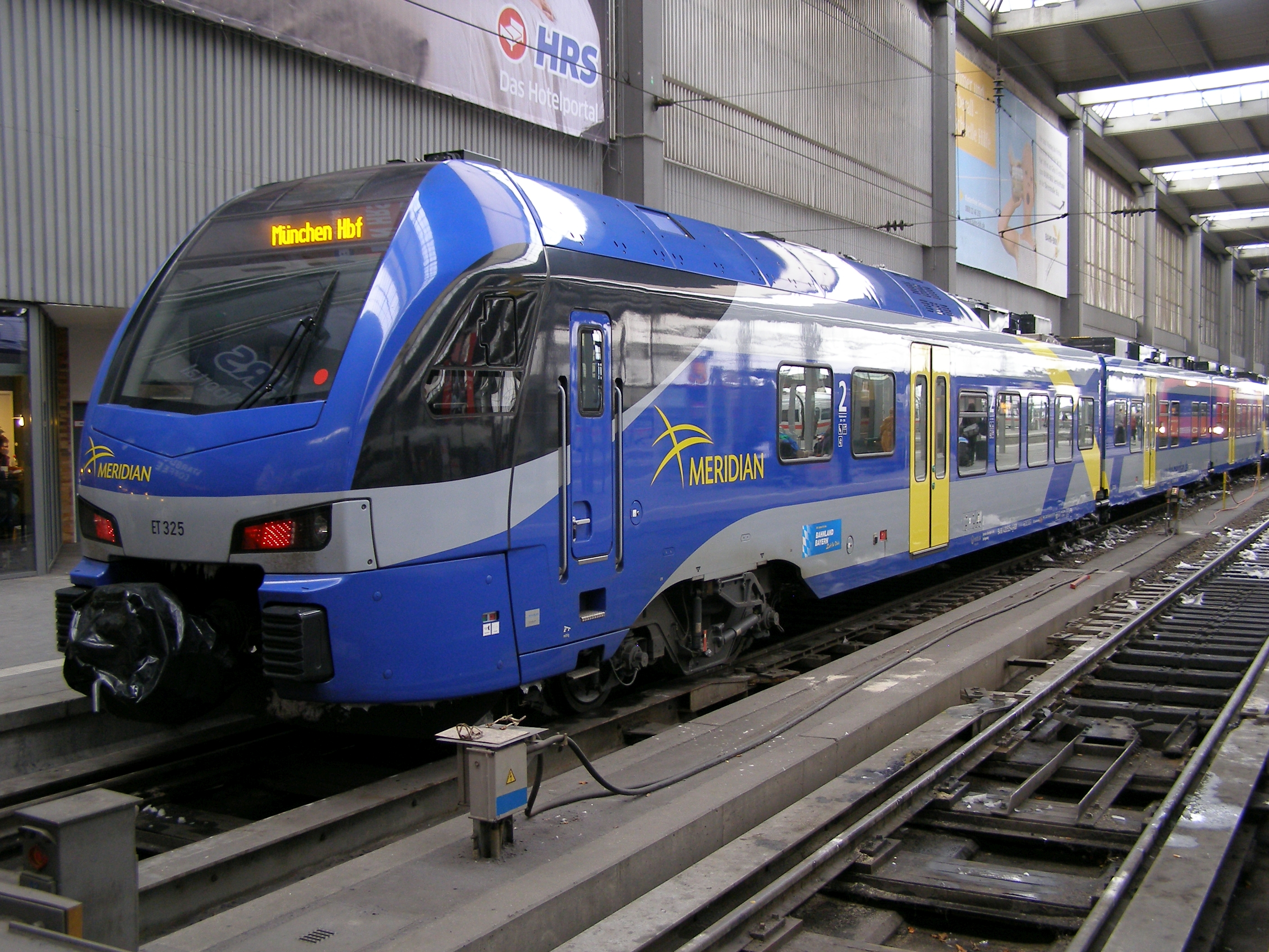 München Hbf. - Meridian (Bayerische Oberlandbahn) Stadler FLIRT ET 325 train. One year later, this train was involved in the Bad Aibling rail accident.